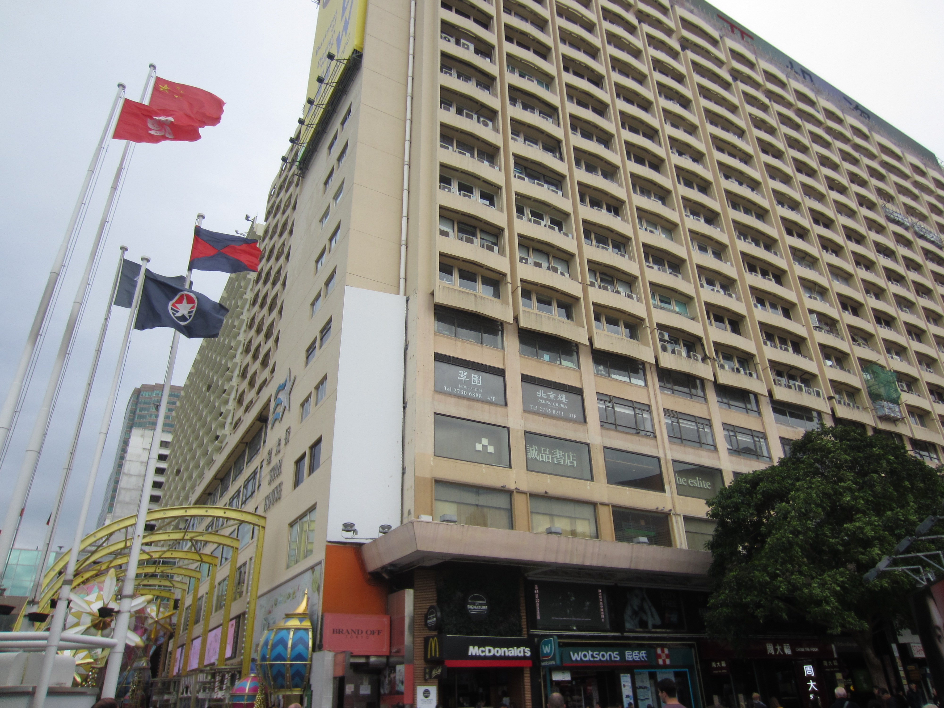 Hong Kong (November 2017)